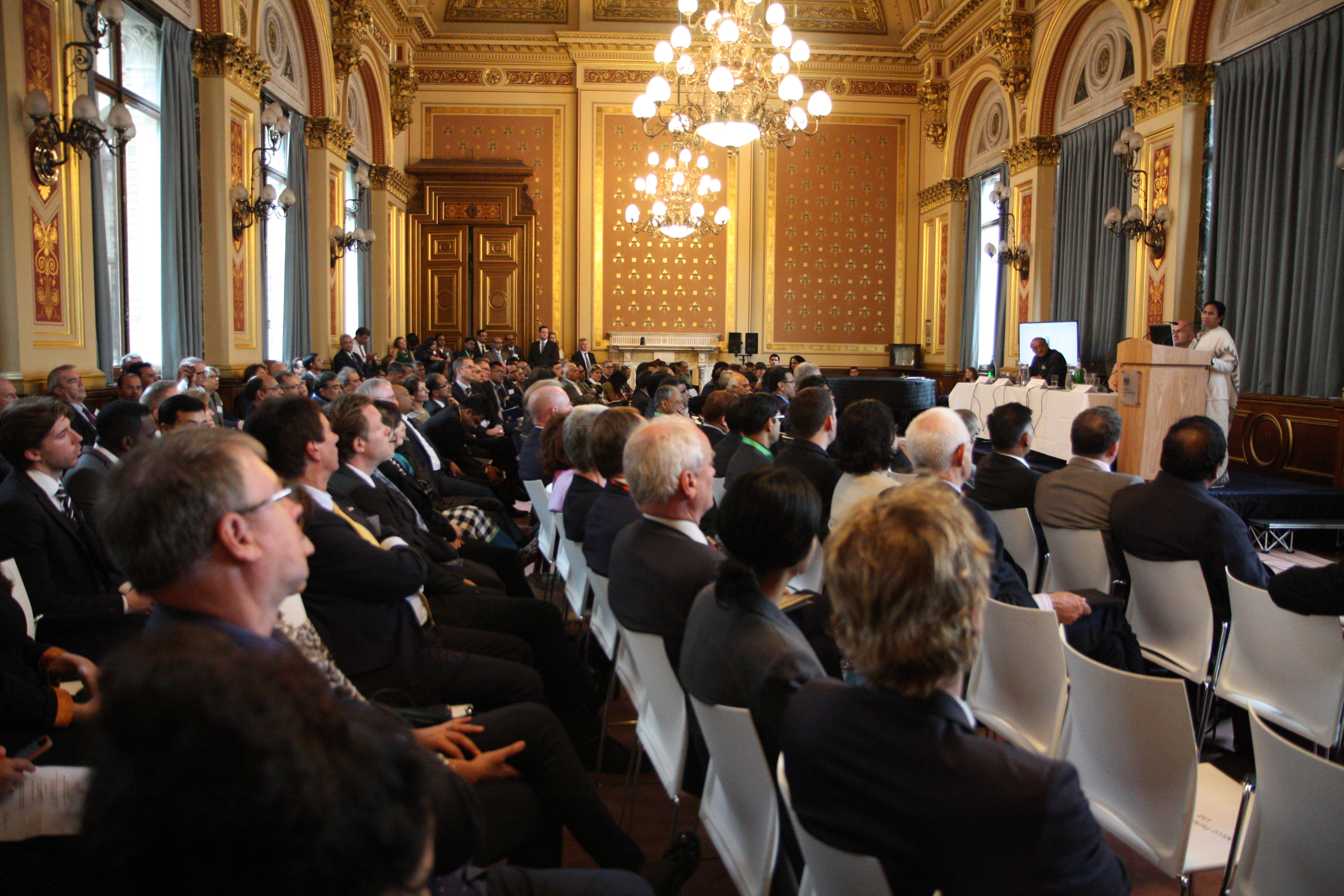 Mamata Banerjee, Chief Minister Government of West Bengal speaking at an event in London, 27 July 2015.